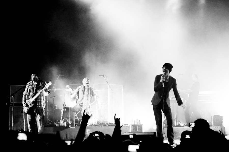 HIM performing LIVE at The Wiltern, Los Angeles, CA - 4/23/2010